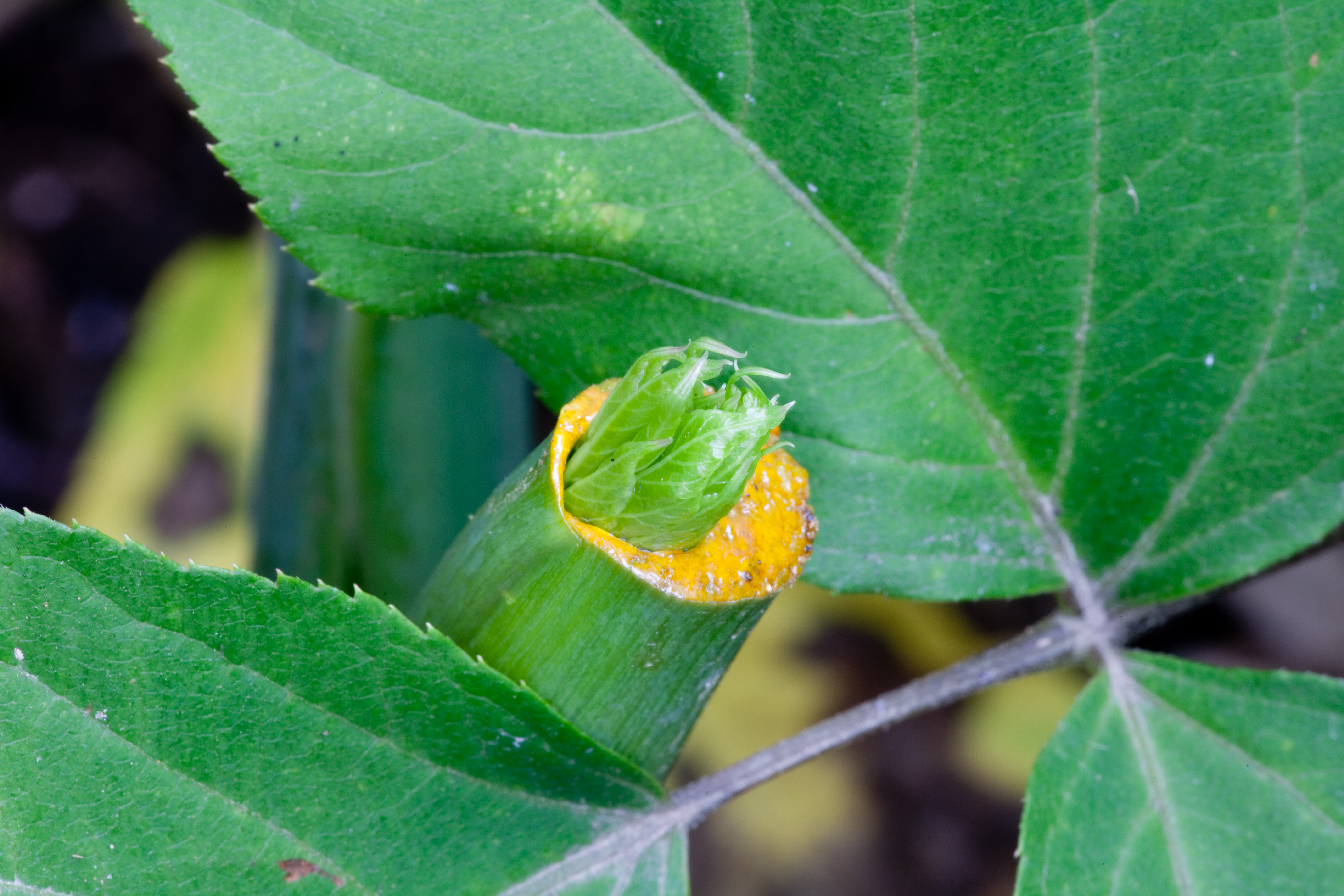 Angelica keiskei aka 明日葉 ashitaba or "tomorrow leaf". Called Ashitaba for its vigorous growth and the fact that if you pick the leaves, it grows back the next day. Used to make tea or good in soup or salad. This photo shows where we cut a batch of leaves off of a plant and how the new set of leaves come sprouting out of the stump of the old ones.